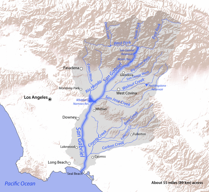 Map of the San Gabriel River watershed, Greater Los Angeles Basin of Southern California.